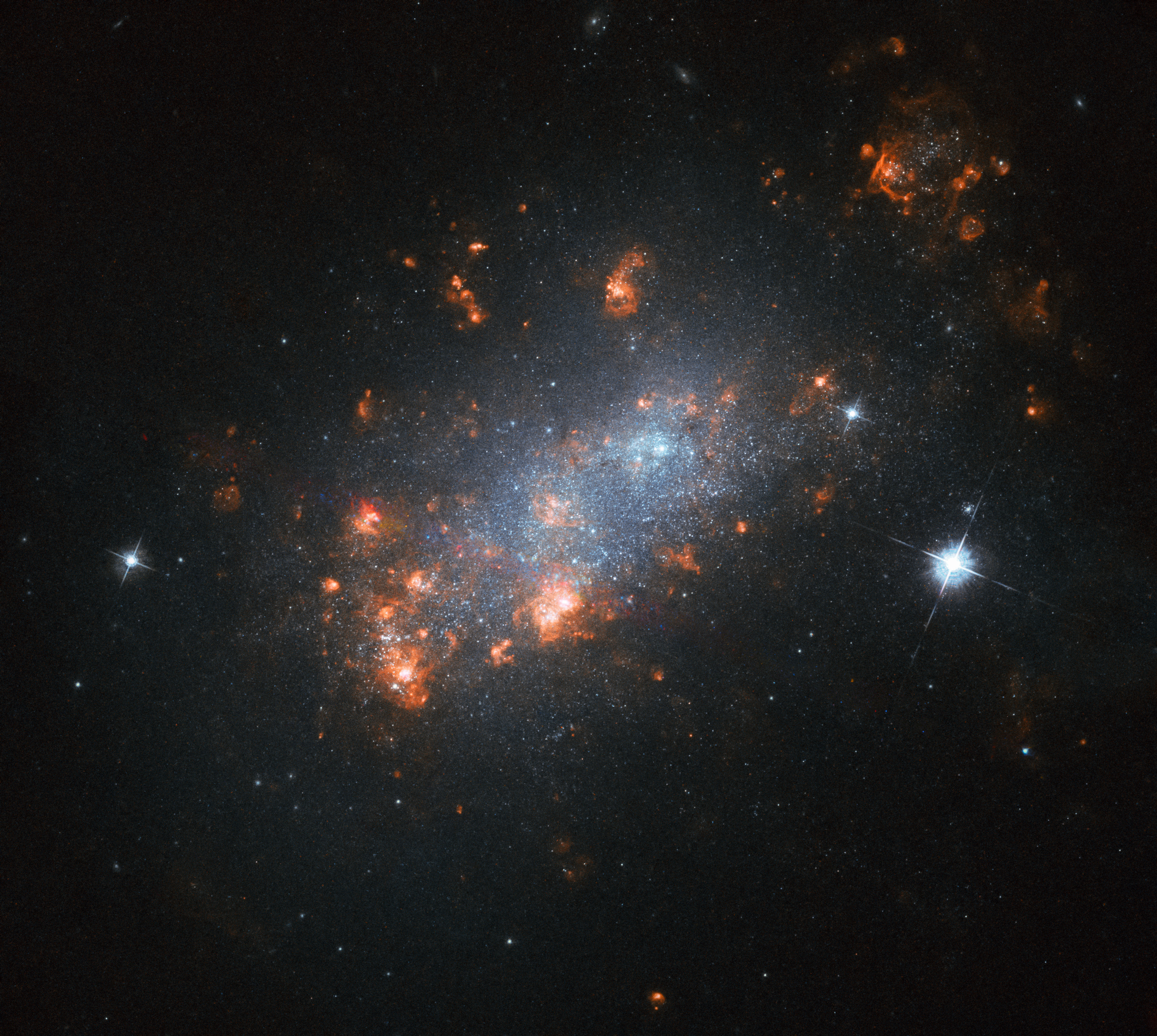 The galaxy NGC 1156 resembles a delicate cherry blossom tree flowering in springtime in this Hubble Picture of the Week. The many bright "blooms" within the galaxy are in fact stellar nurseries — regions where new stars are springing to life. Energetic light emitted by newborn stars in these regions streams outwards and encounters nearby pockets of hydrogen gas, causing it to glow with a characteristic pink hue. NGC 1156 is located in the constellation of Aries (The Ram). It is classified as a dwarf irregular galaxy, meaning that it lacks a clear spiral or rounded shape, as other galaxies have, and is on the smaller side, albeit with a relatively large central region that is more densely packed with stars. Some pockets of gas within NGC 1156 rotate in the opposite direction to the rest of the galaxy, suggesting that there has been a close encounter with another galaxy in NGC 1156's past. The gravity of this other galaxy — and the turbulent chaos of such an interaction — could have scrambled the likely more orderly rotation of material within NGC 1156, producing the odd behaviour we see today.